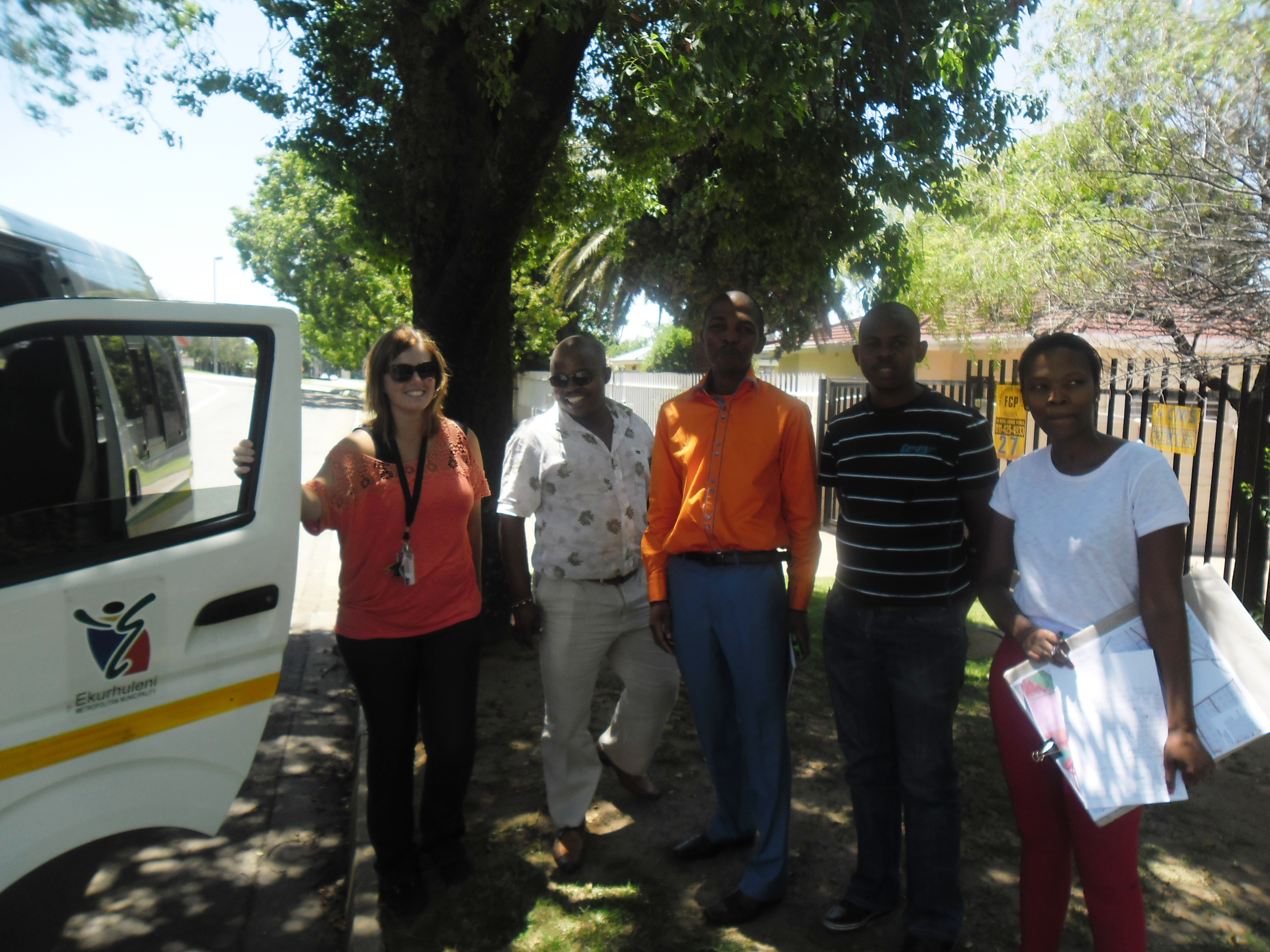 Officials from the Town Planning department of the Ekurhuleni Metropolitan Municipality (South Africa) on a routine site visit in the Benoni. The municipal planning team's composition is a reflection of the"New South African" racial integration policies